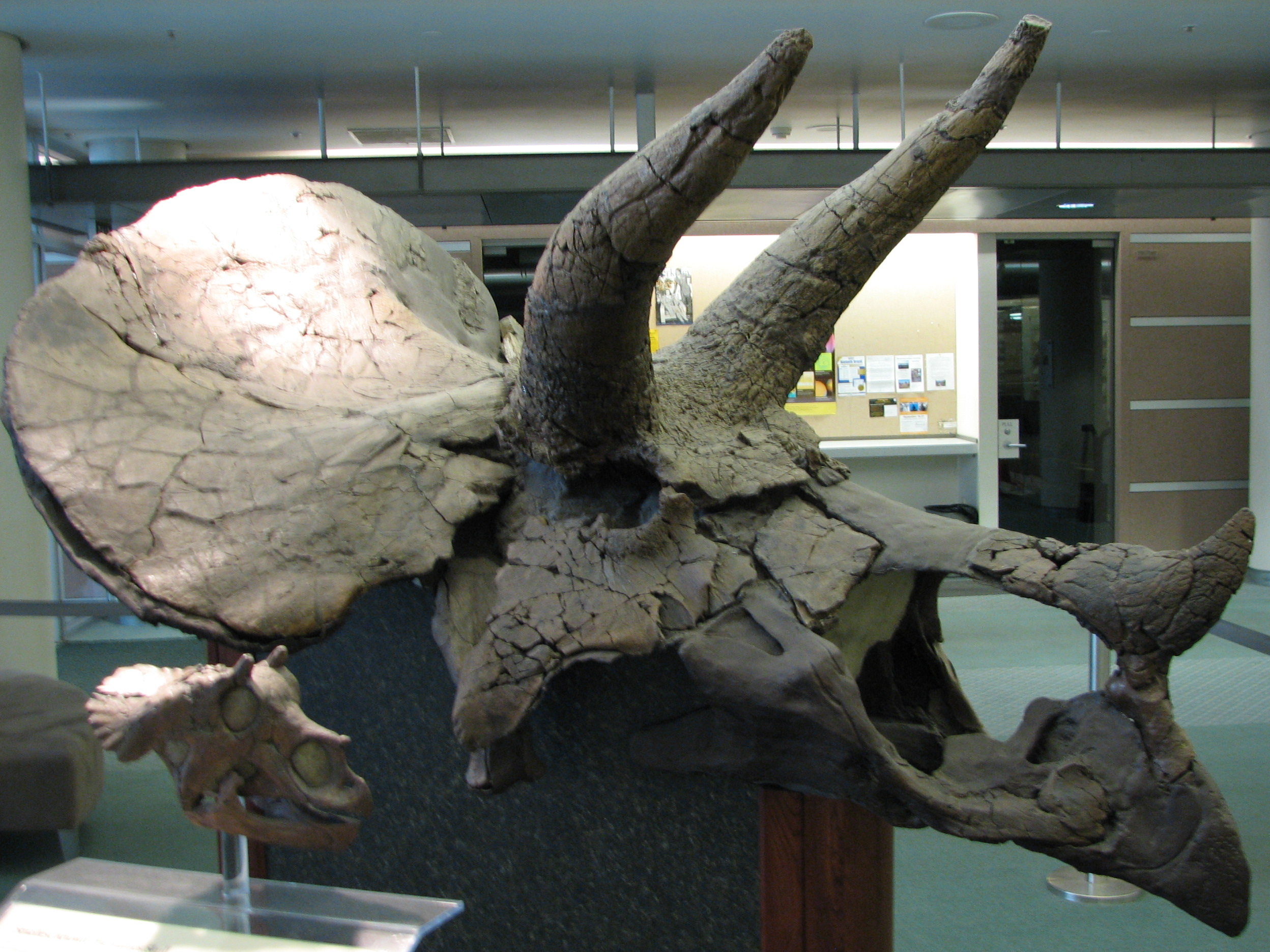 Triceratops skull on display at the University of California, Berkeley in VLSB